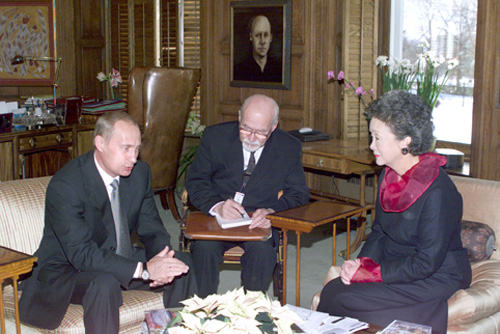 RIDEAU HALL, OTTAWA. President Vladimir Putin and Adrienne Clarkson, the Governor General of Canada.